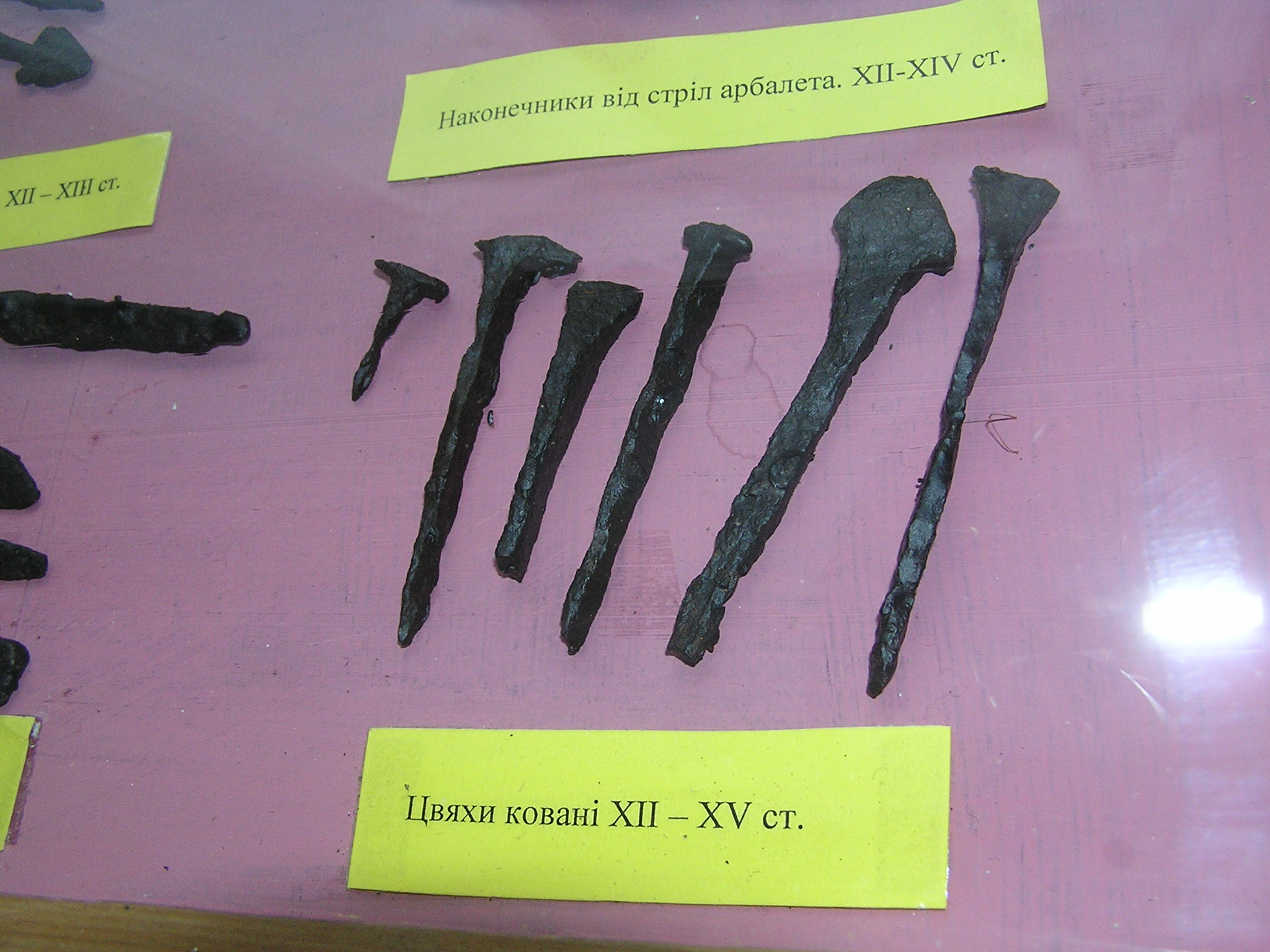 History museum of Truskavets History Museum of Truskavets Native nameМузей истории г. ТрускавецLocationTruskavetsCoordinates49° 16′ 39.5″ N, 23° 30′ 23.96″ E Established29 December 1982 Authority control : Q12130489 institution QS:P195,Q12130489